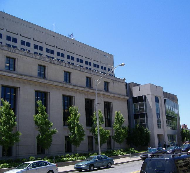 Image of the Indiana State Library, which is on the National Register of Historic Places .